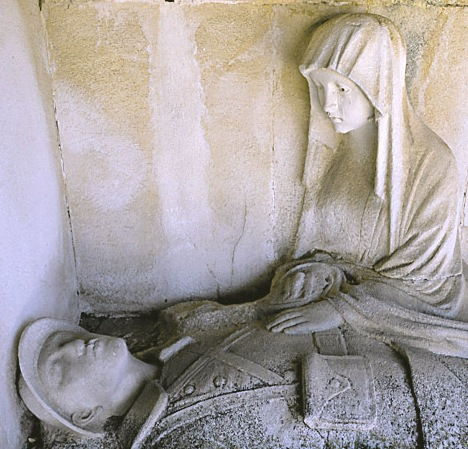 Part of French Monument aux Morts